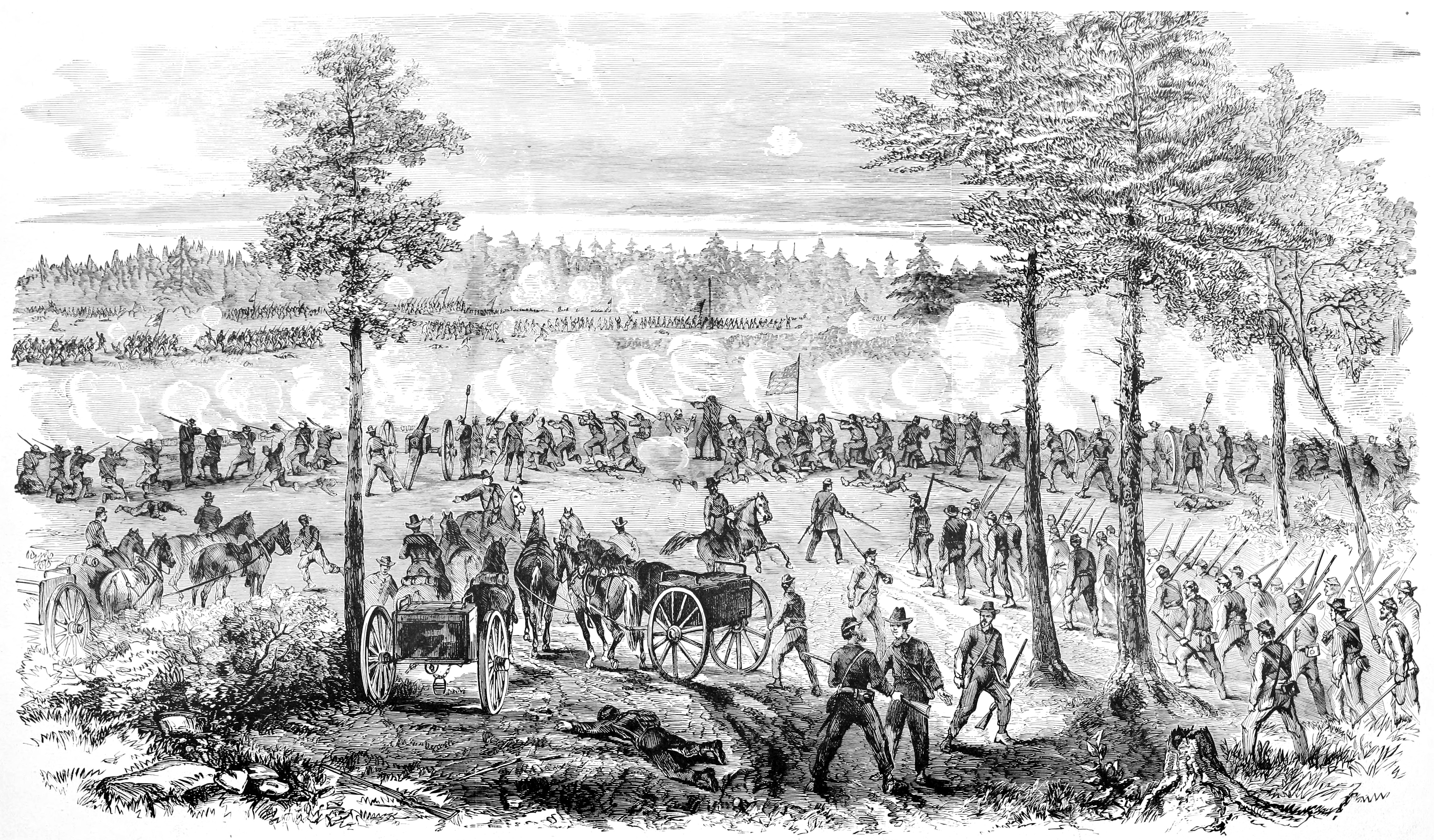 Engraving captioned "The Siege of Petersburg--Battle of Ream's Station-The Attempt of the Enemy to Regain the Weldon railroad on the evening of August 25th, 1864" showing the "repulse of the final confederate assault" according to the accompanying text. From Frank Leslie's Scenes and Portraits of the Civil War (1894) available at the Internet Archive. (image cleaned and cropped).